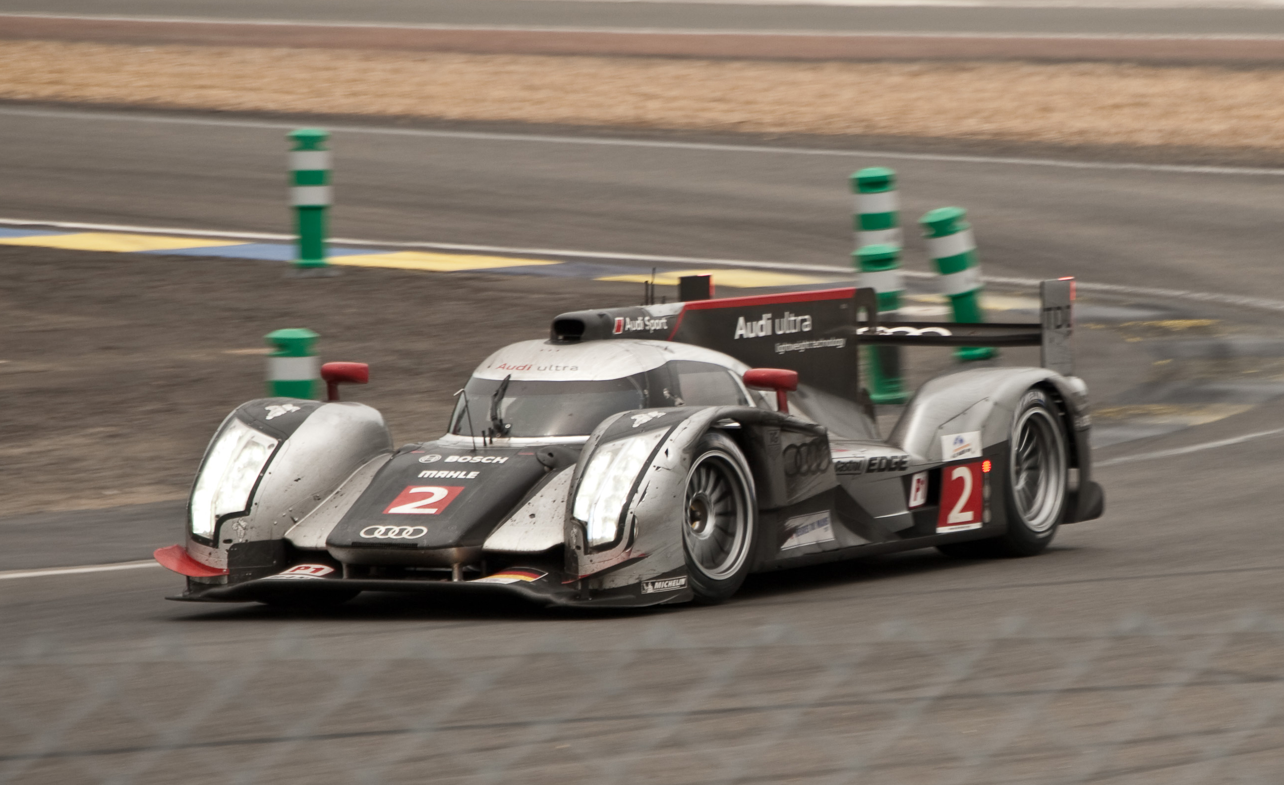 Audi R18 #2 from the Audi Sport Team Joest at the 24 hour race in Le Mans 2011, finished 1st in class (LMP1) and 1st overall after 355 laps